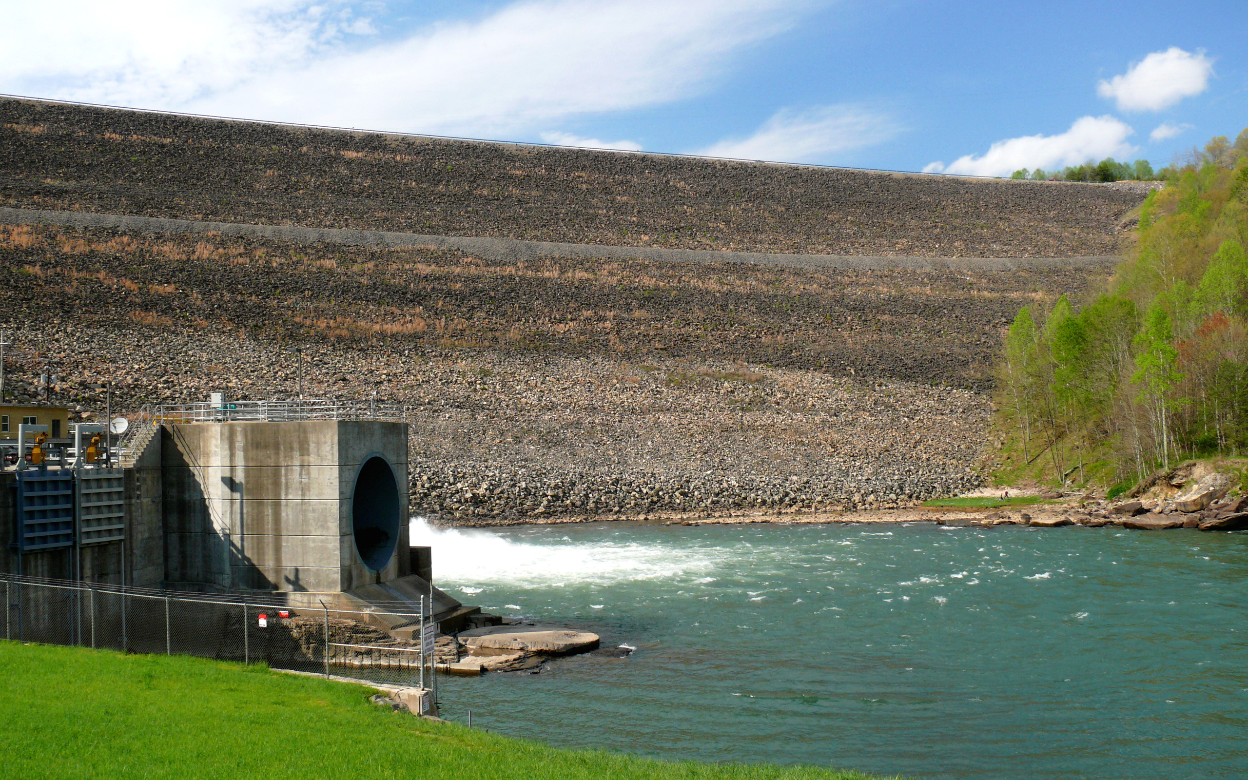 Summersville Dam is the second largest rock-fill dam in the eastern US. Originally built between 1960 and 1966 to control flooding of the Gauley River, hydrolectric generating capability was added to the dam in 2001. Photo taken with a Panasonic Lumix DMC-FZ50 in Nicholas County, WV, USA.